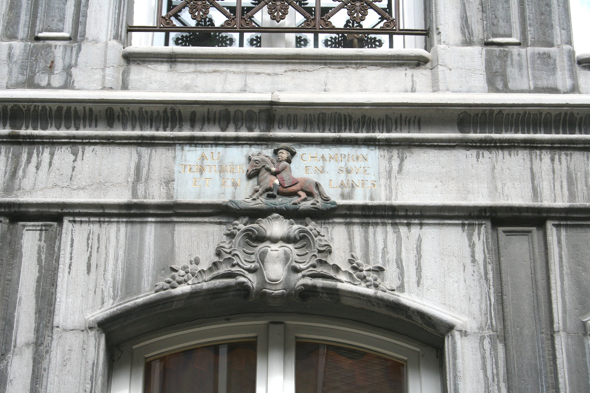 Liège (Belgium), shop sign « au Champion – Teinturier en soye et en laines ». - Rue Hors-Château, 57. ( Outside Catsle Street).